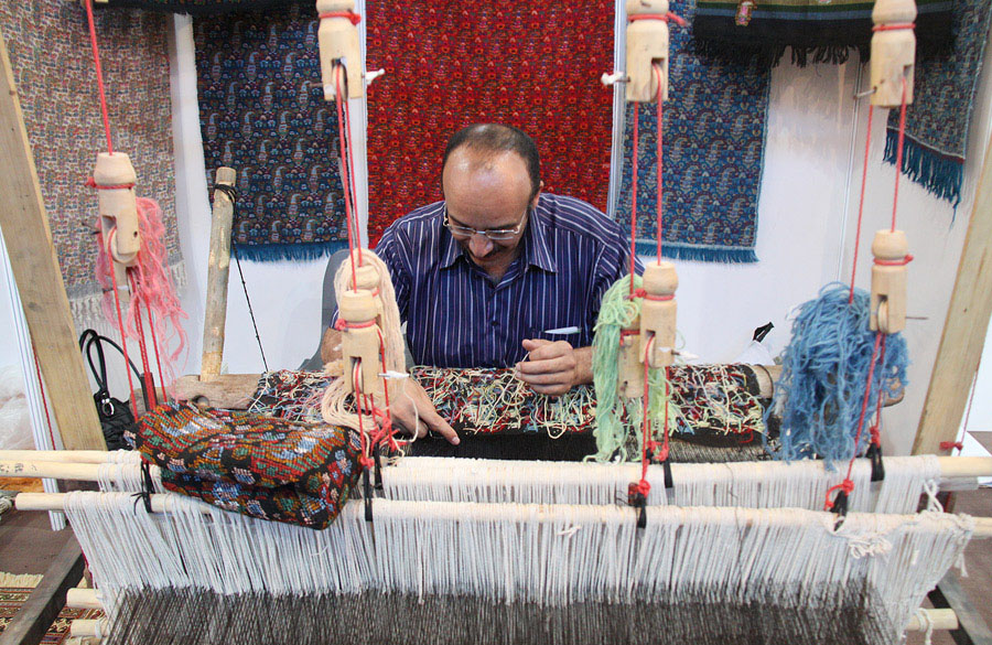 The second Iran's International handicraft Exhibition at Iran International Permanent Fairground.